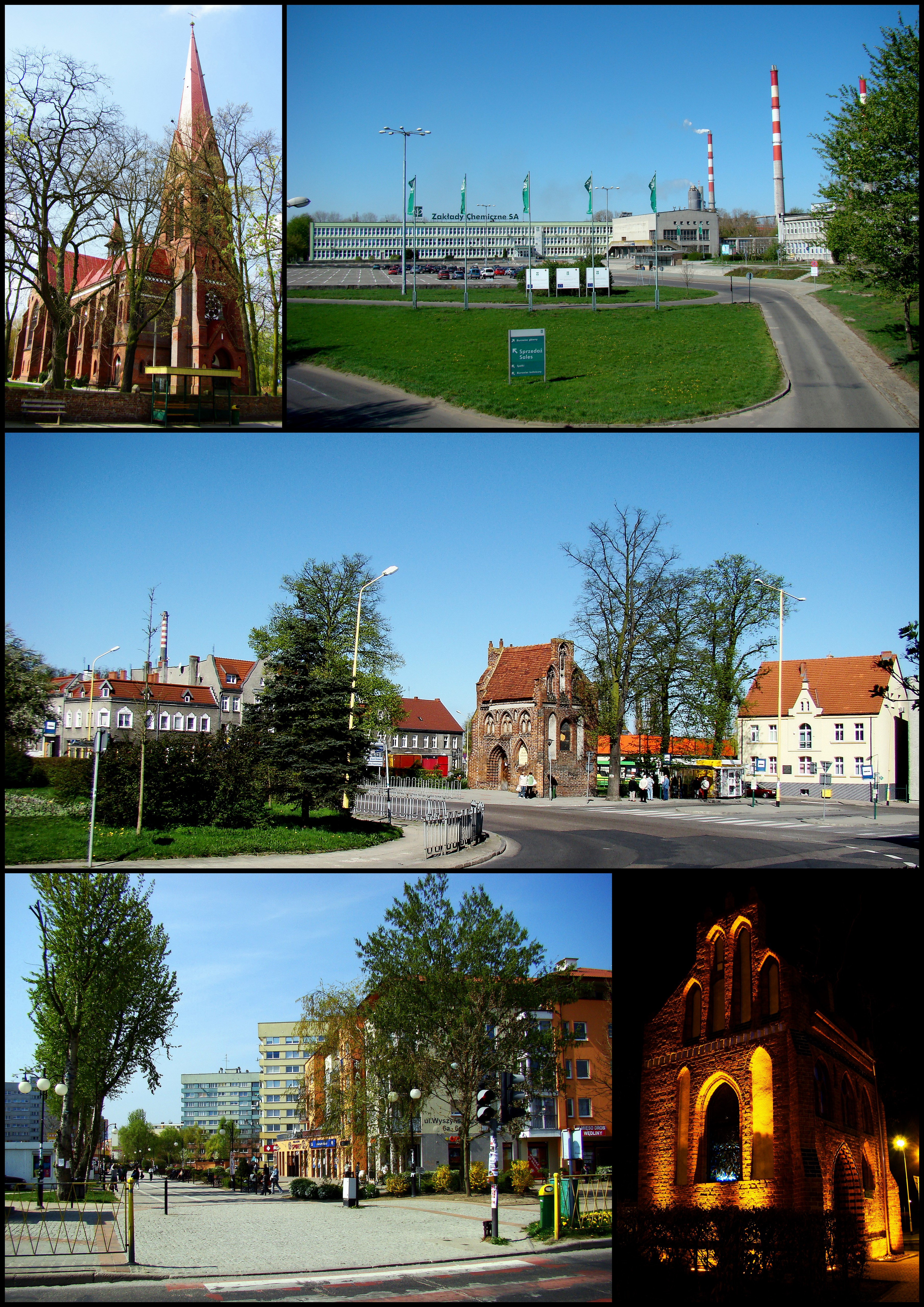 Police, West Pomeranian Voivodeship, Poland